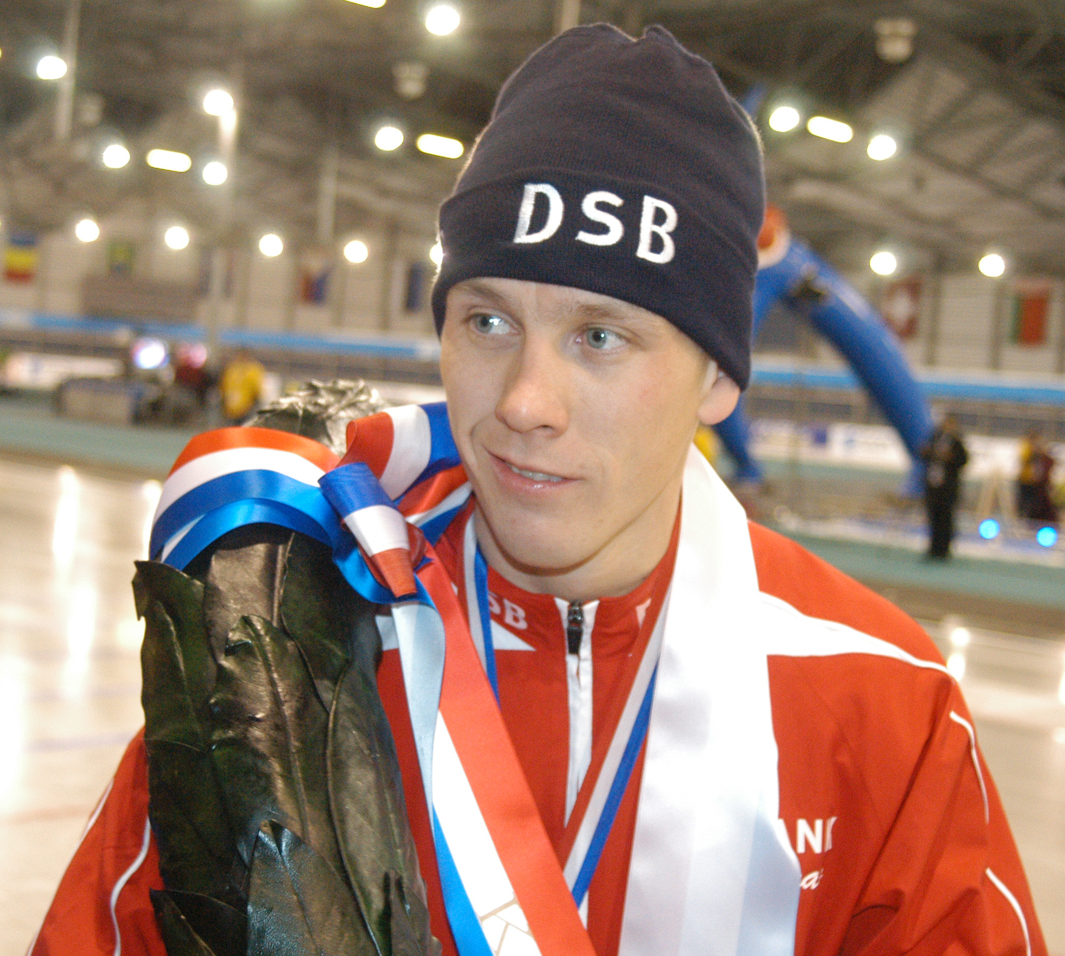 Stefan Groothuis (NED) after winning the Dutch Sprint Speed Skating Championship 2009 at Groningen, the Netherlands.